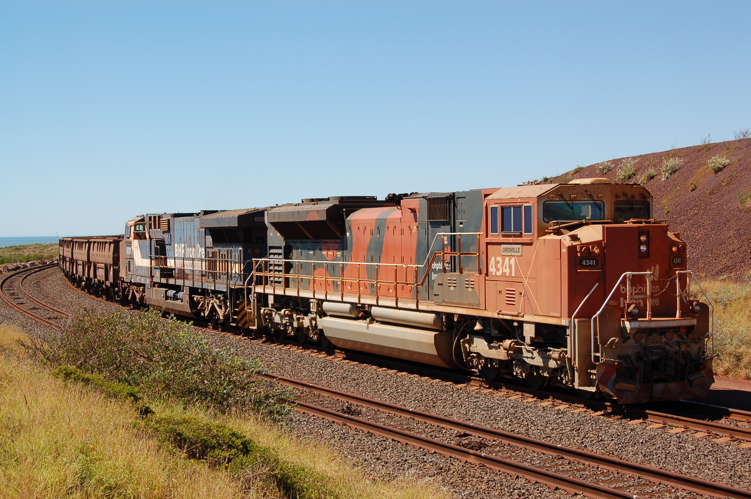 BHP Billiton Iron Ore EMD SD70ACe no. 4341 Oroville and GE AC6000CW no. 6071 Chichester, at the head of a train being unloaded at the northern end of the Finucane Island loop, on the Goldsworthy railway. The Indian Ocean is just visible in the background at left.